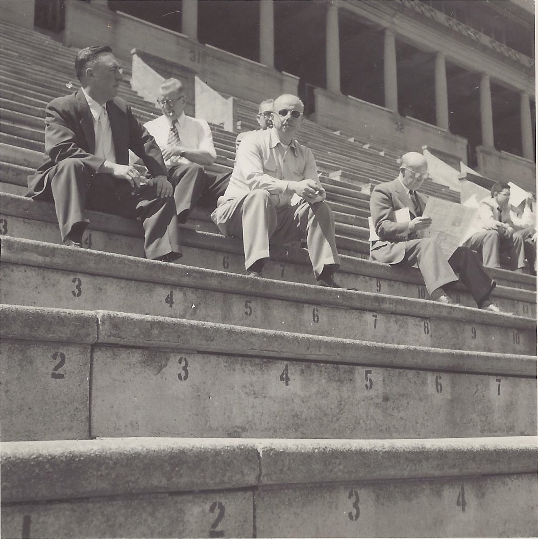 stands of Churchill Downs in 1951. Willard F Jones is pictures second from left, in back row.